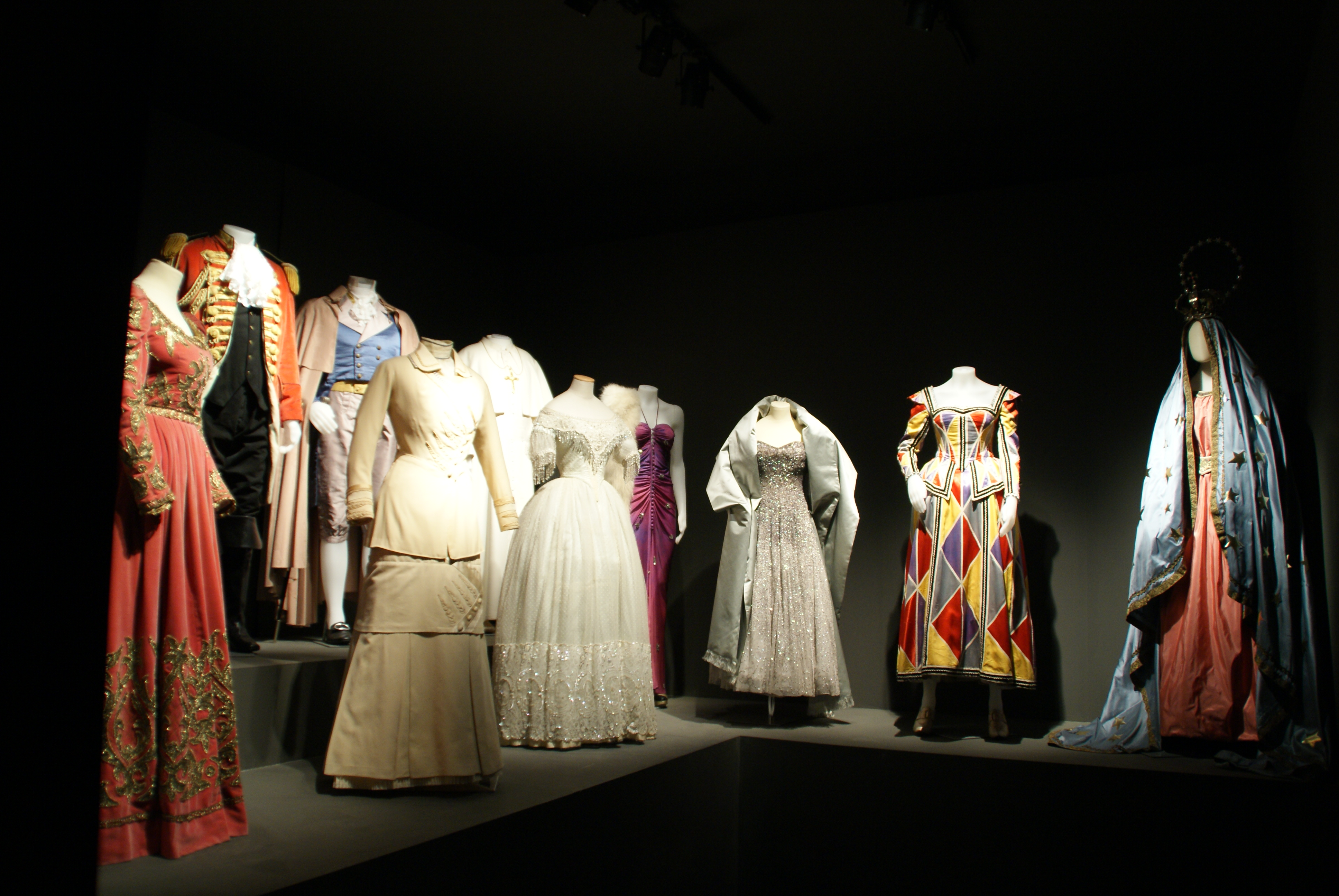 Film costumes displayed in Cinecittà studios, Rome, Italy